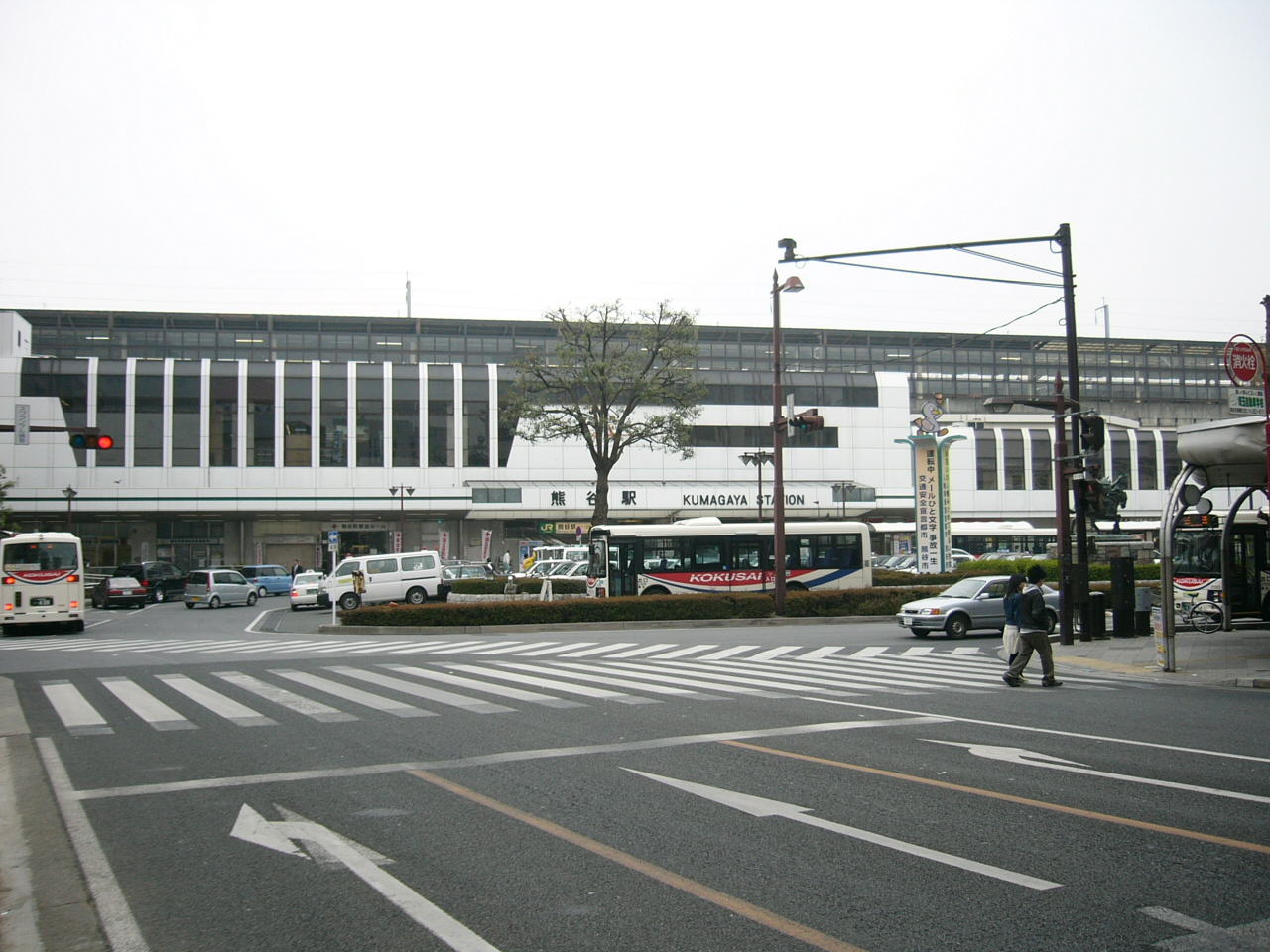 Kumagaya Station (North Entrance)